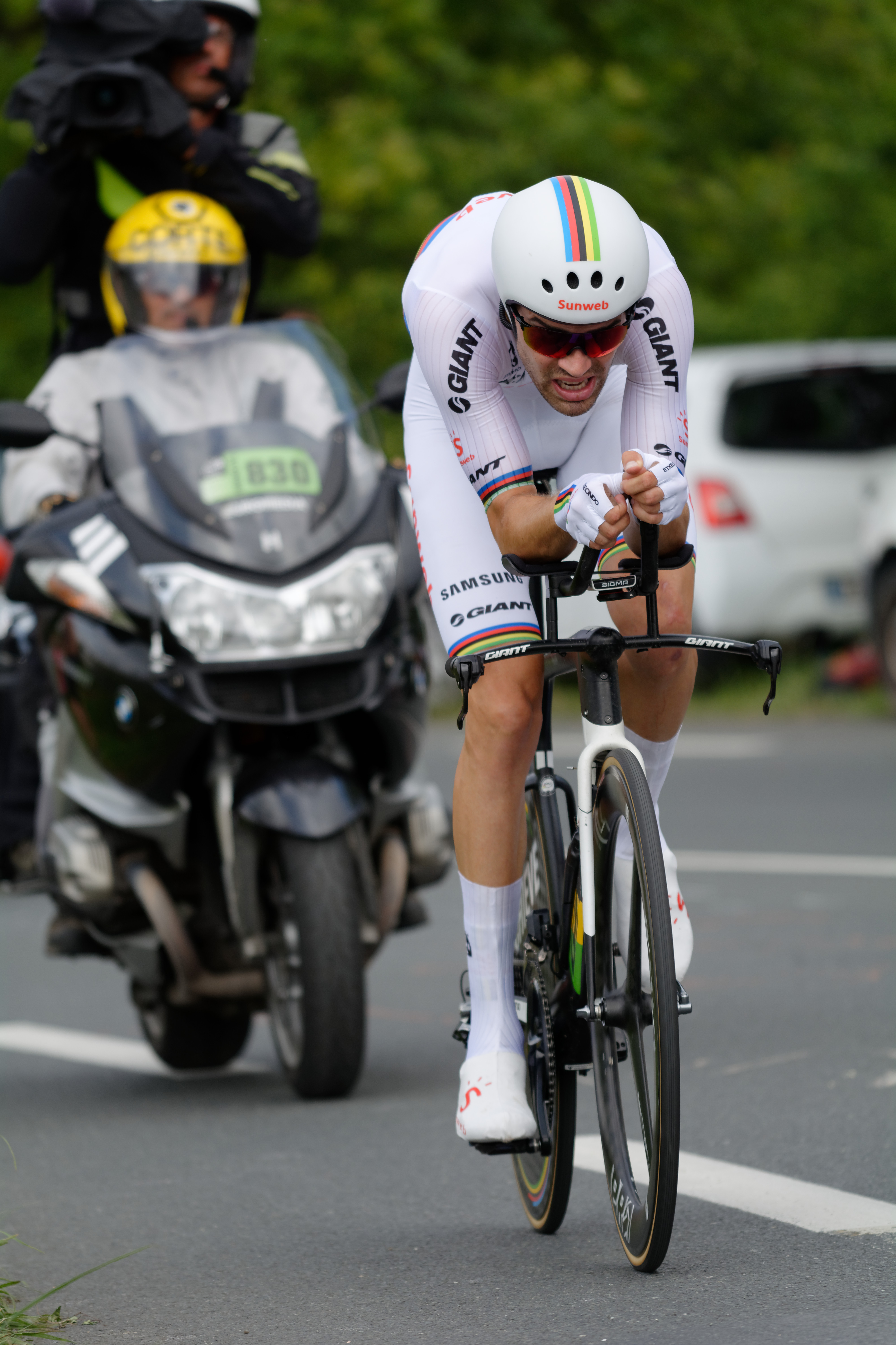 2018 Tour de France